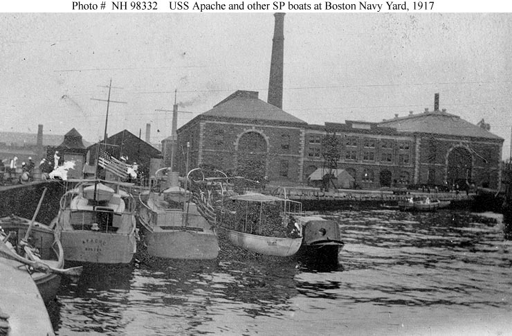 United States Navy patrol boat USS Apache (SP-729) is at left in a line of section patrol boats at the Boston Navy Yard in Boston, Massachusetts